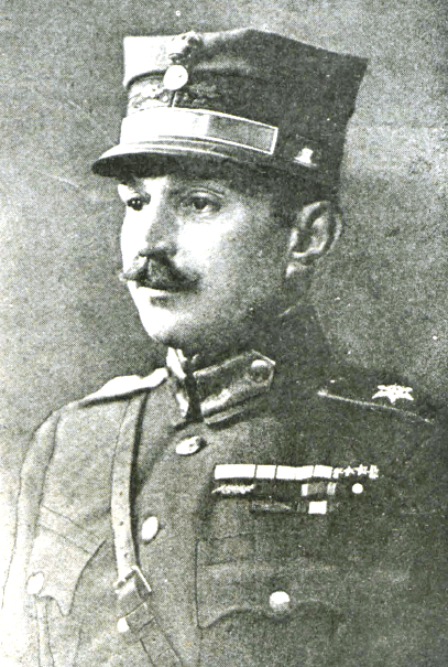 Greek general and politician Konstantinos Manetas